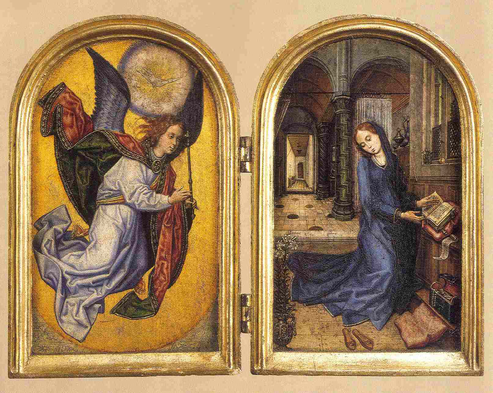 Diptych with the angel Gabriel and the Virgin